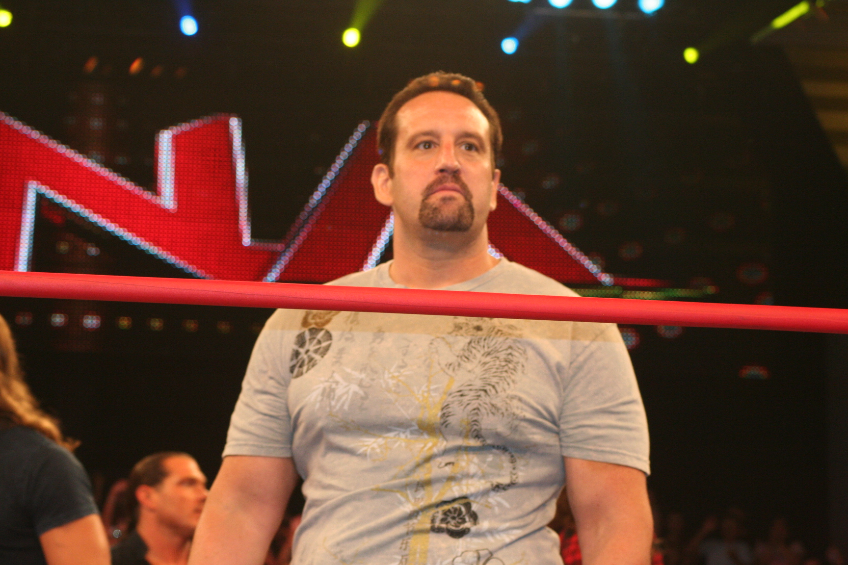 Professional wrestler Tommy Dreamer at TNA Impact! on July 27, 2010.